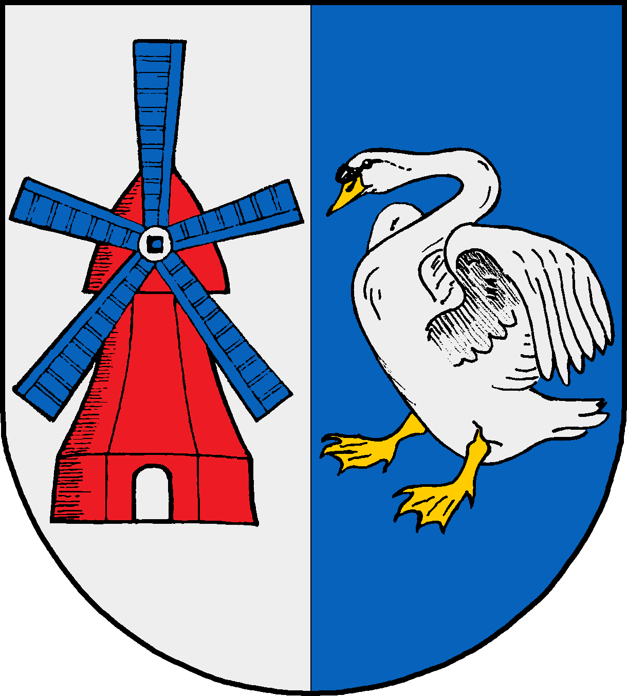 Coat of arms of the municipality Labenzin Schleswig-Holstein, Germany.